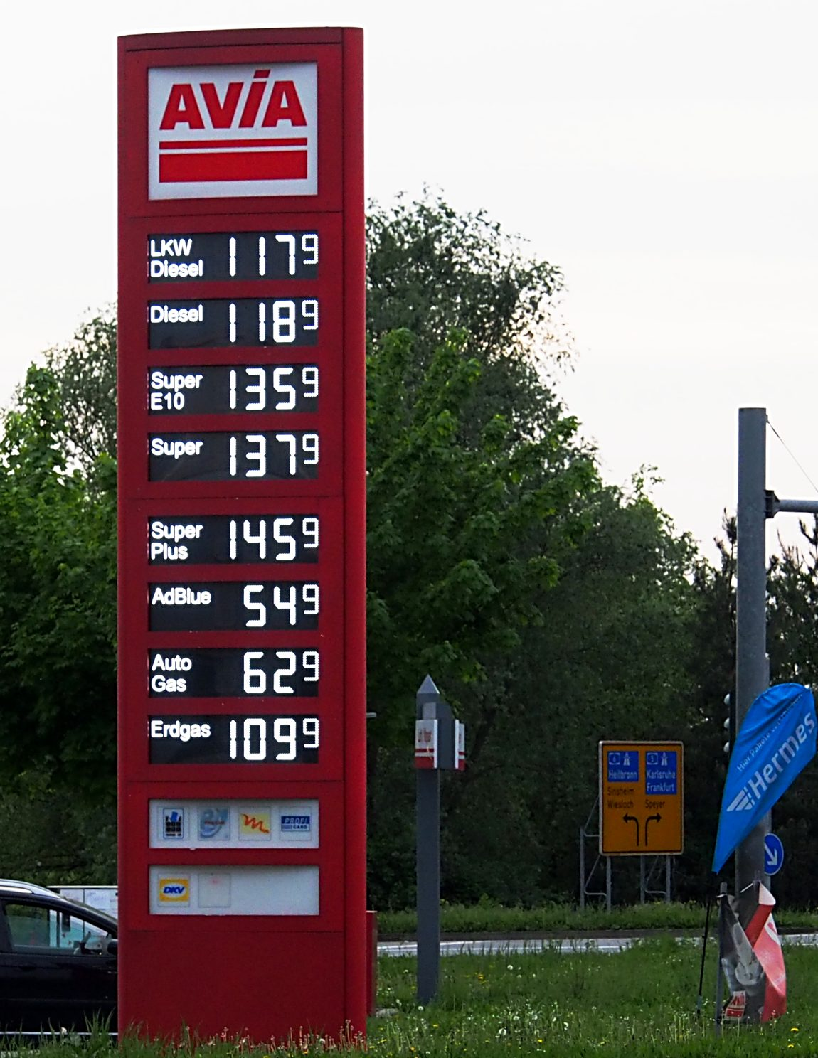 Fuel price indicator display in Germany